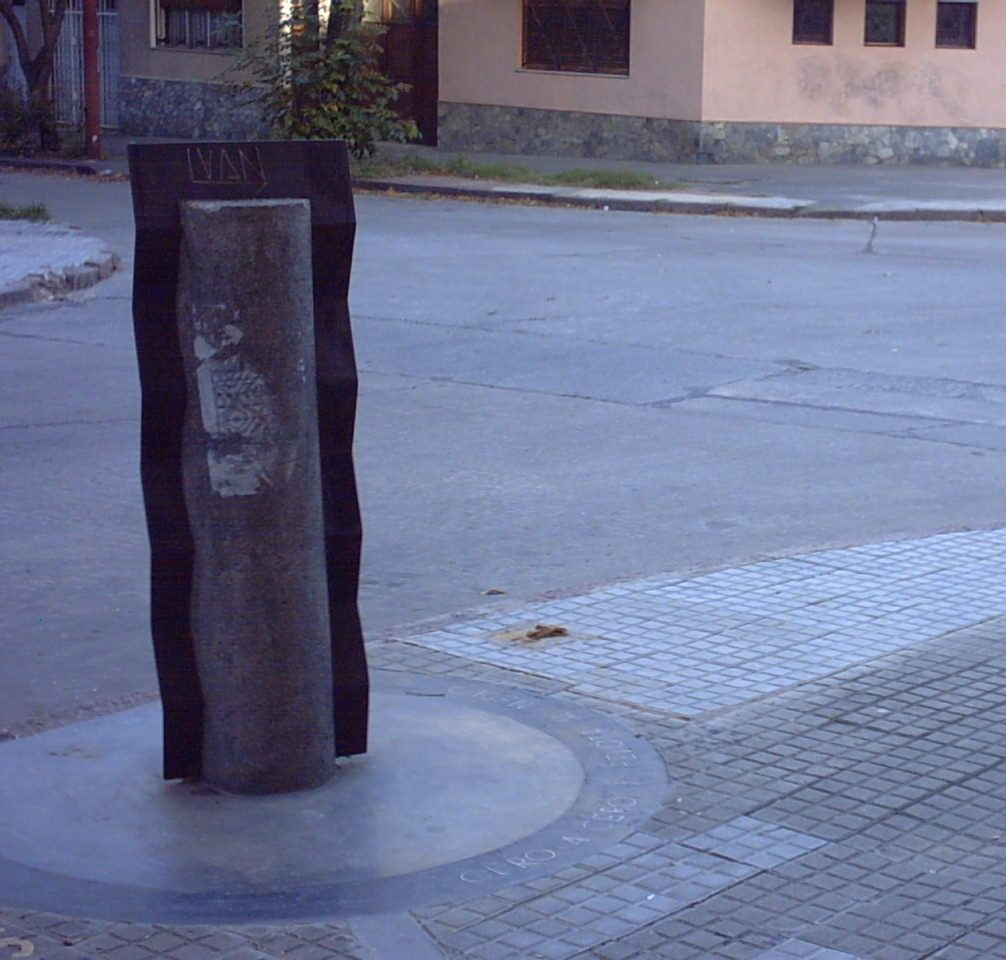 Signal in the corner of Montevideo which marks the place where this Stadium was.